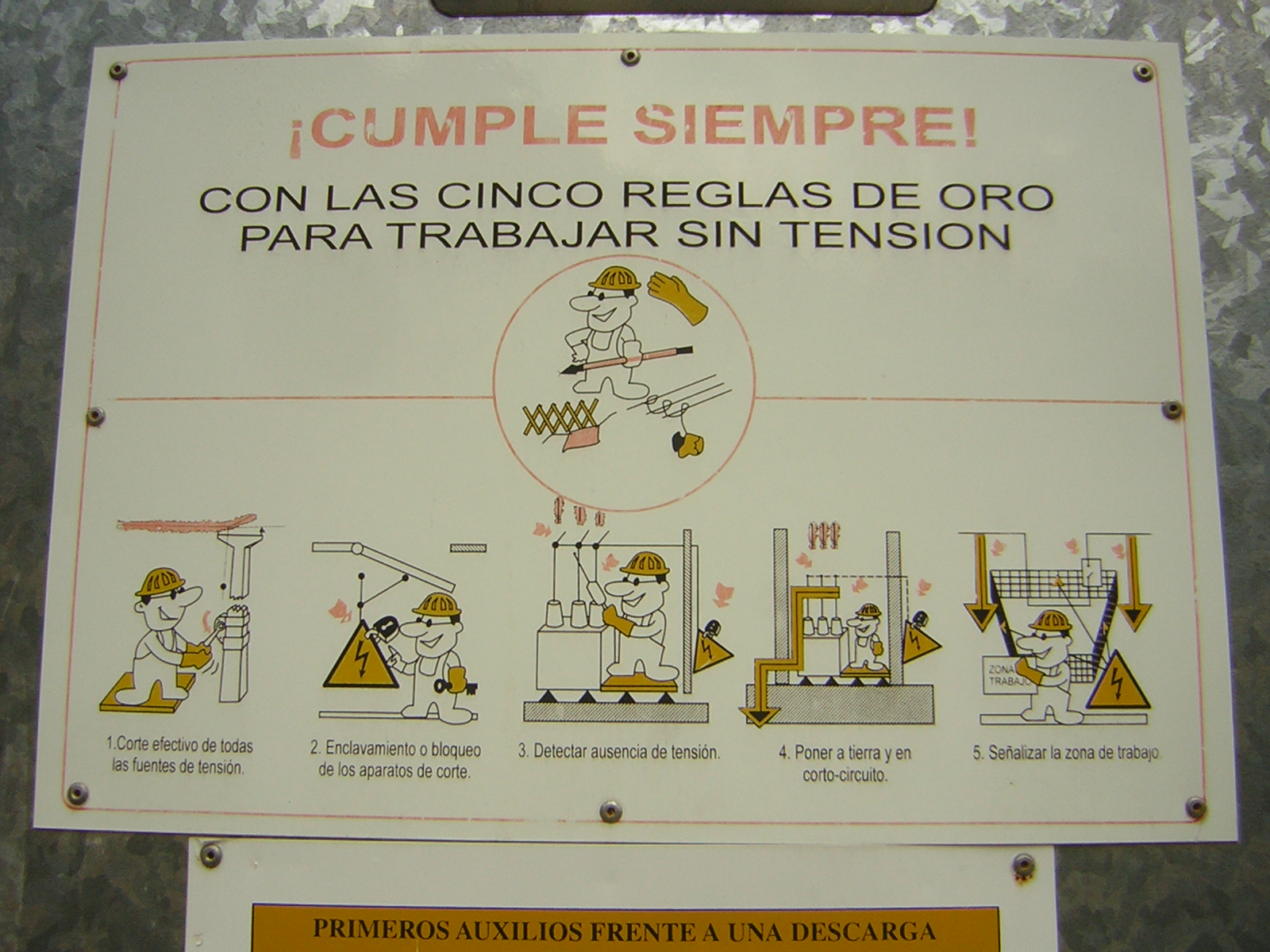 5 golden rules of electricity